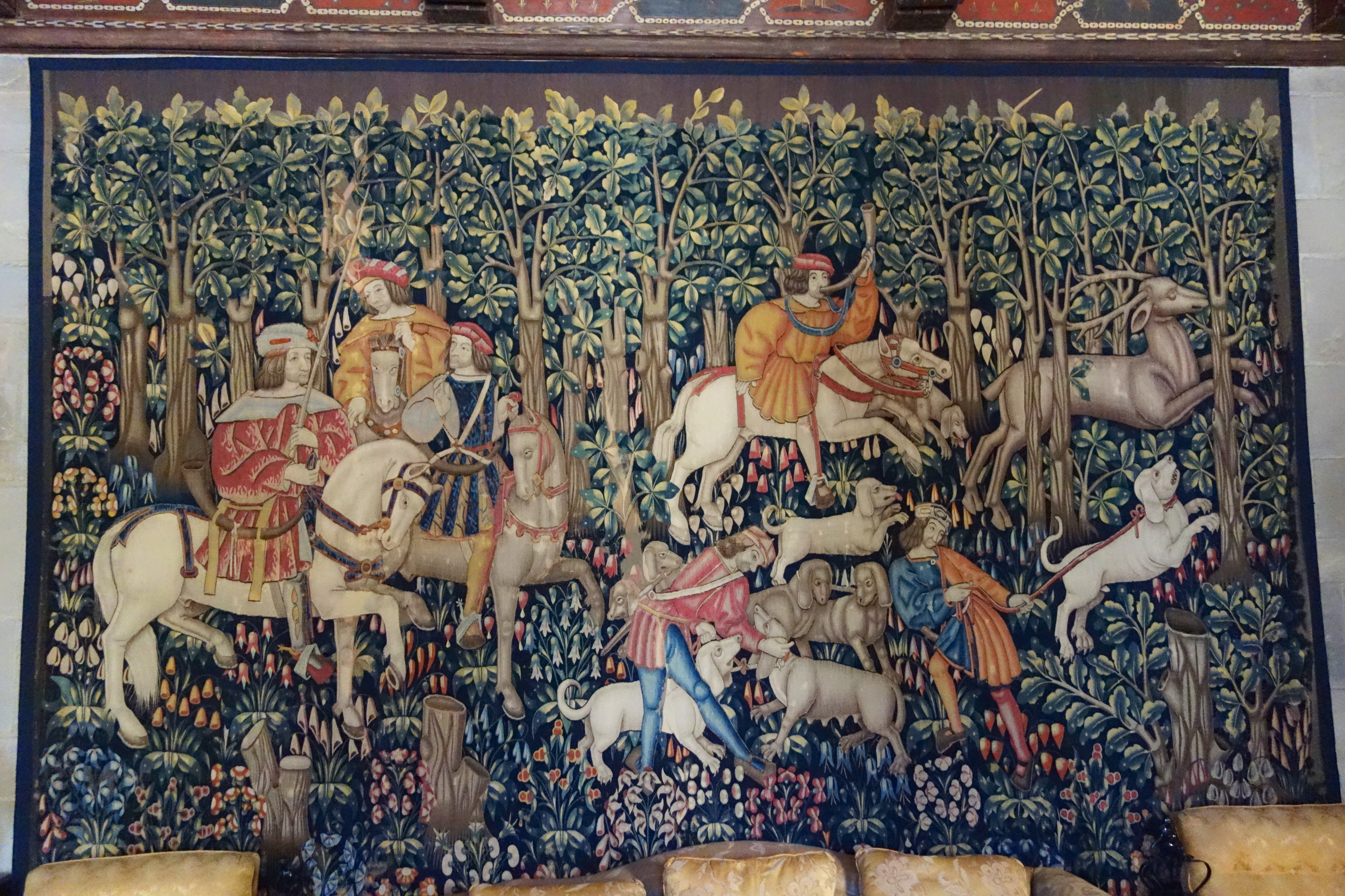 Artwork inside Hearst Castle, San Simeon, California, USA. Photograph was permitted without restriction in and around the castle. All artwork is old enough so that it is in the public domain.